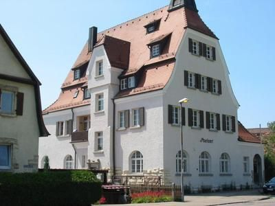 Historic Post Office, Neresheim